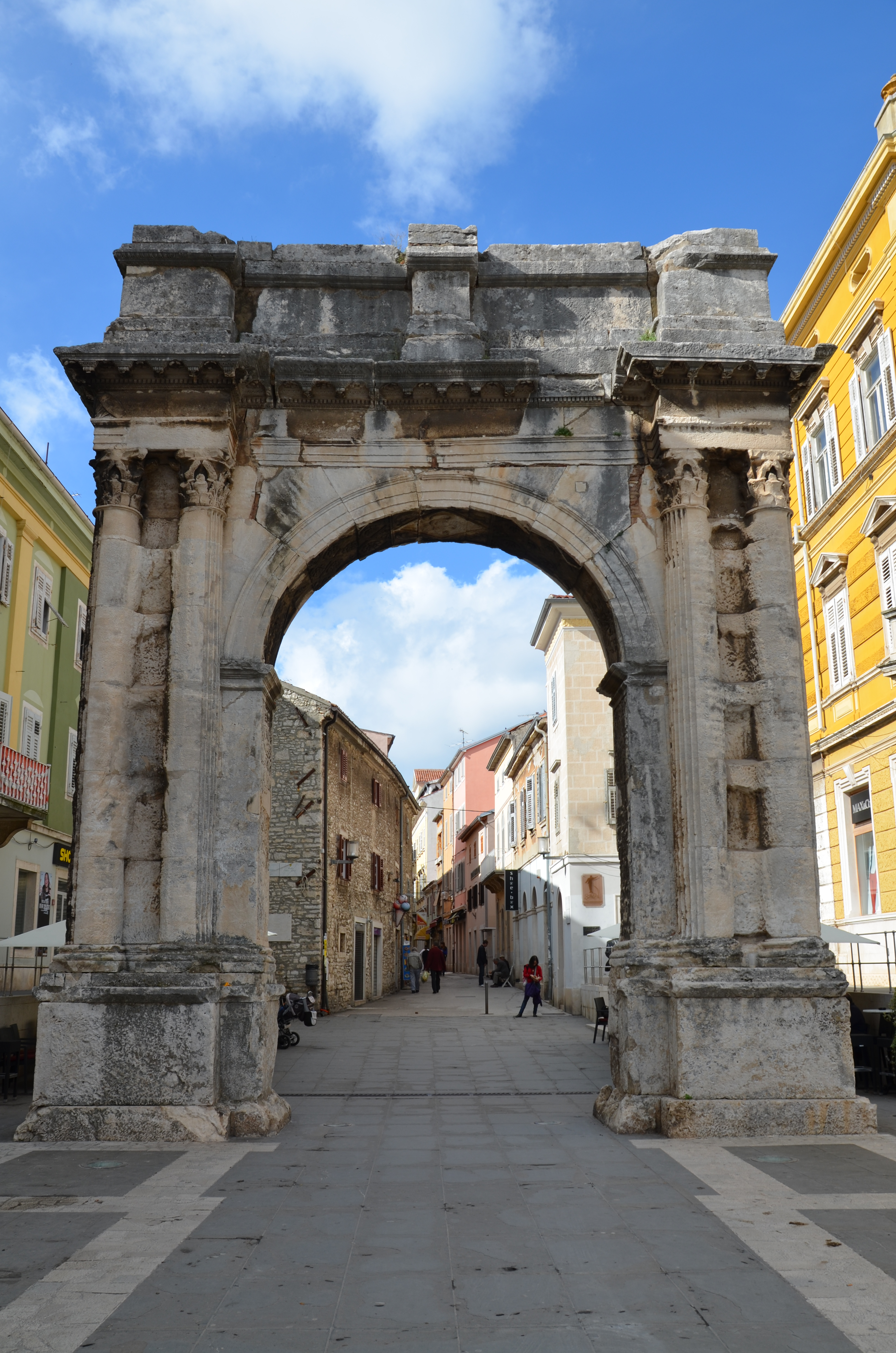 Arch of the Sergii, Colonia Pietas Iulia Pola Pollentia Herculanea, Histria